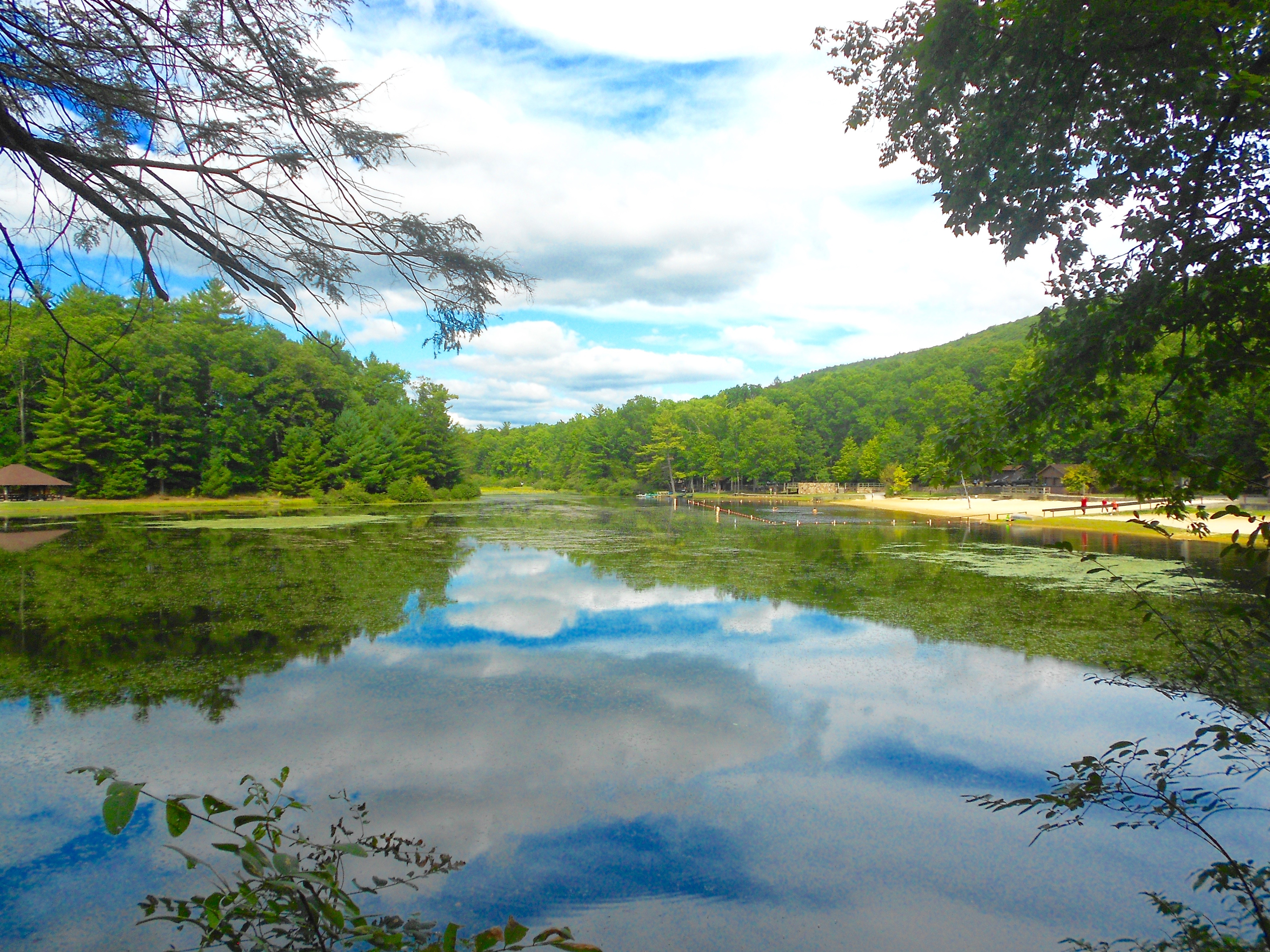 Whipple Dam Lake in Whipple Dam Lake State Park listed on the National Register of Historic Places in Huntingdon County, Pennsylvania